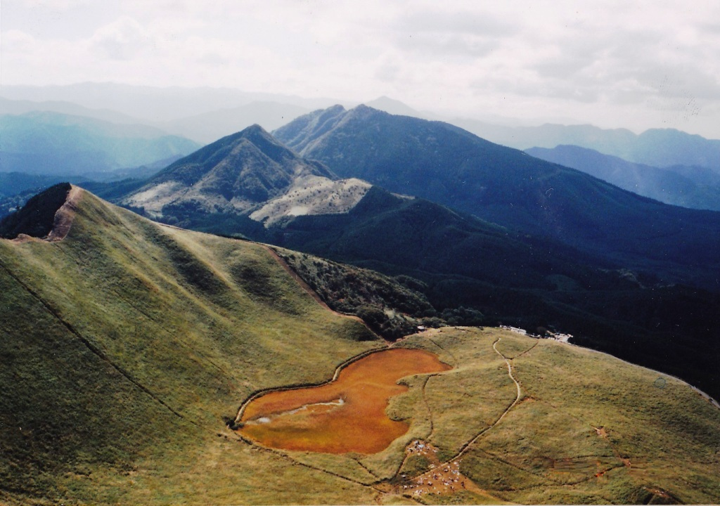 Sonikogen from Mount Kuroso, Nara pref. and Mie pref. ,Japan.